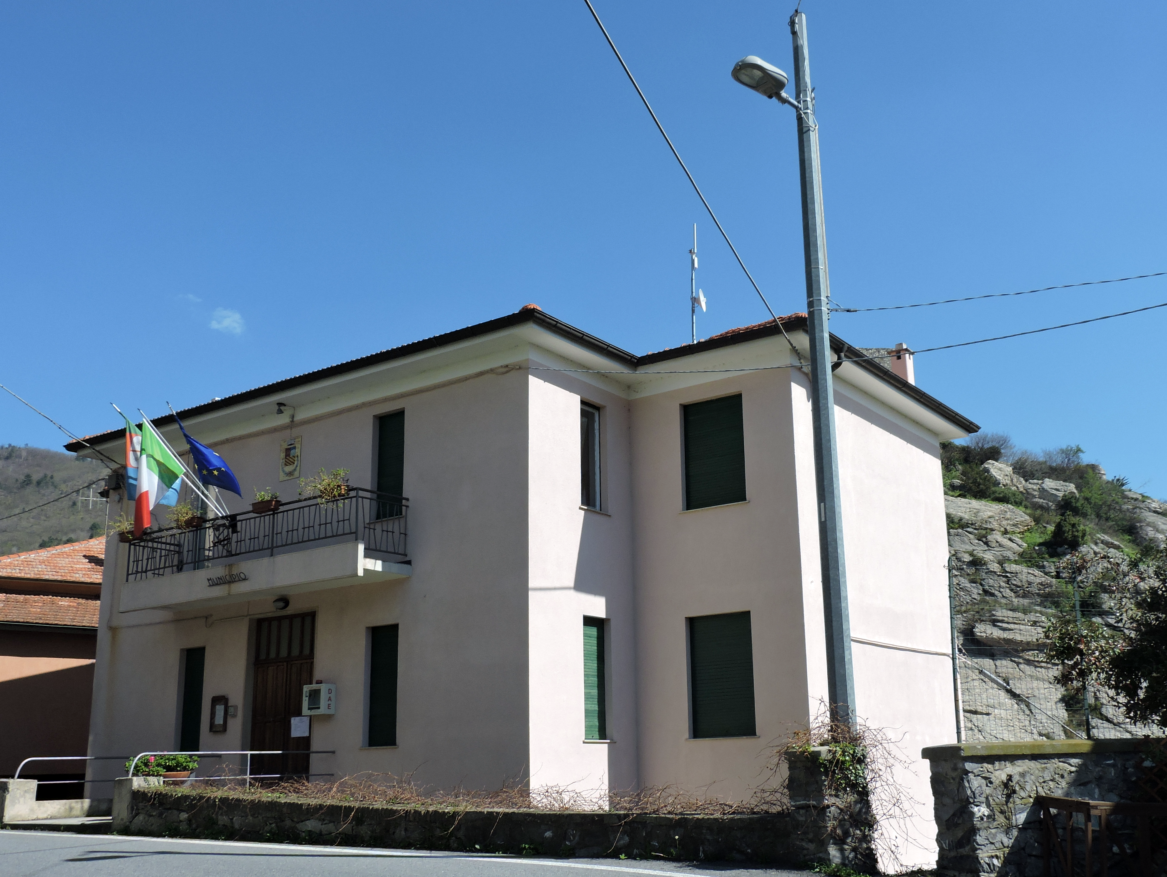 Castelvecchio di Rocca Barbena (SV, Italy): town hall